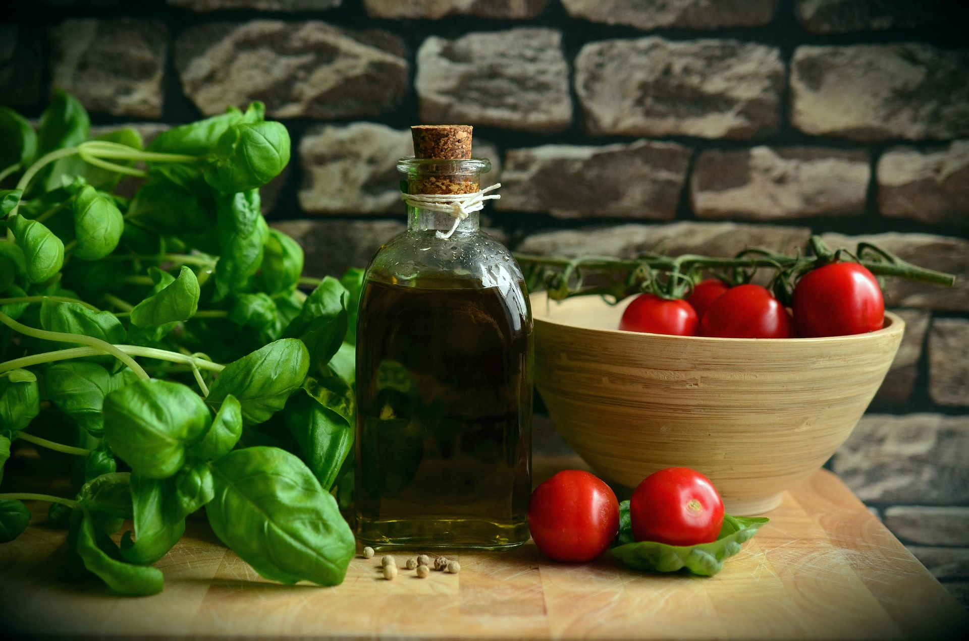 Picture showing basil, tomatoes and a jar of olive oil.